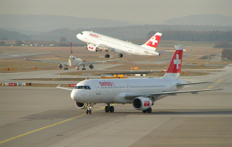 Airbus aircraft at Zürich Airport: A320 in front, A319 taking off and A330 rolling in the background.